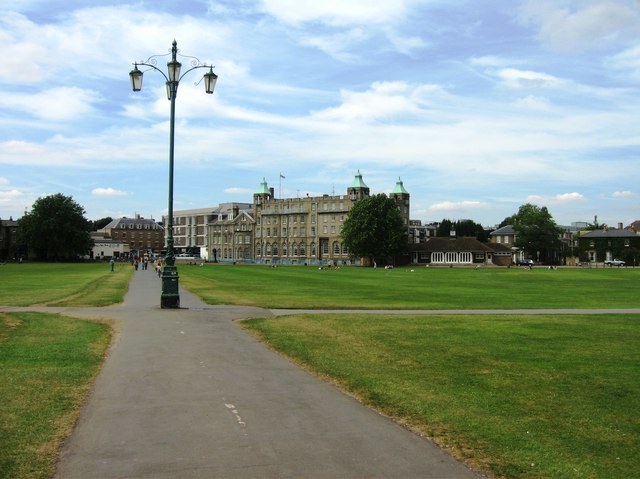 Reality Checkpoint